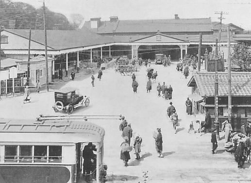 Ueno Station in the Taisho era